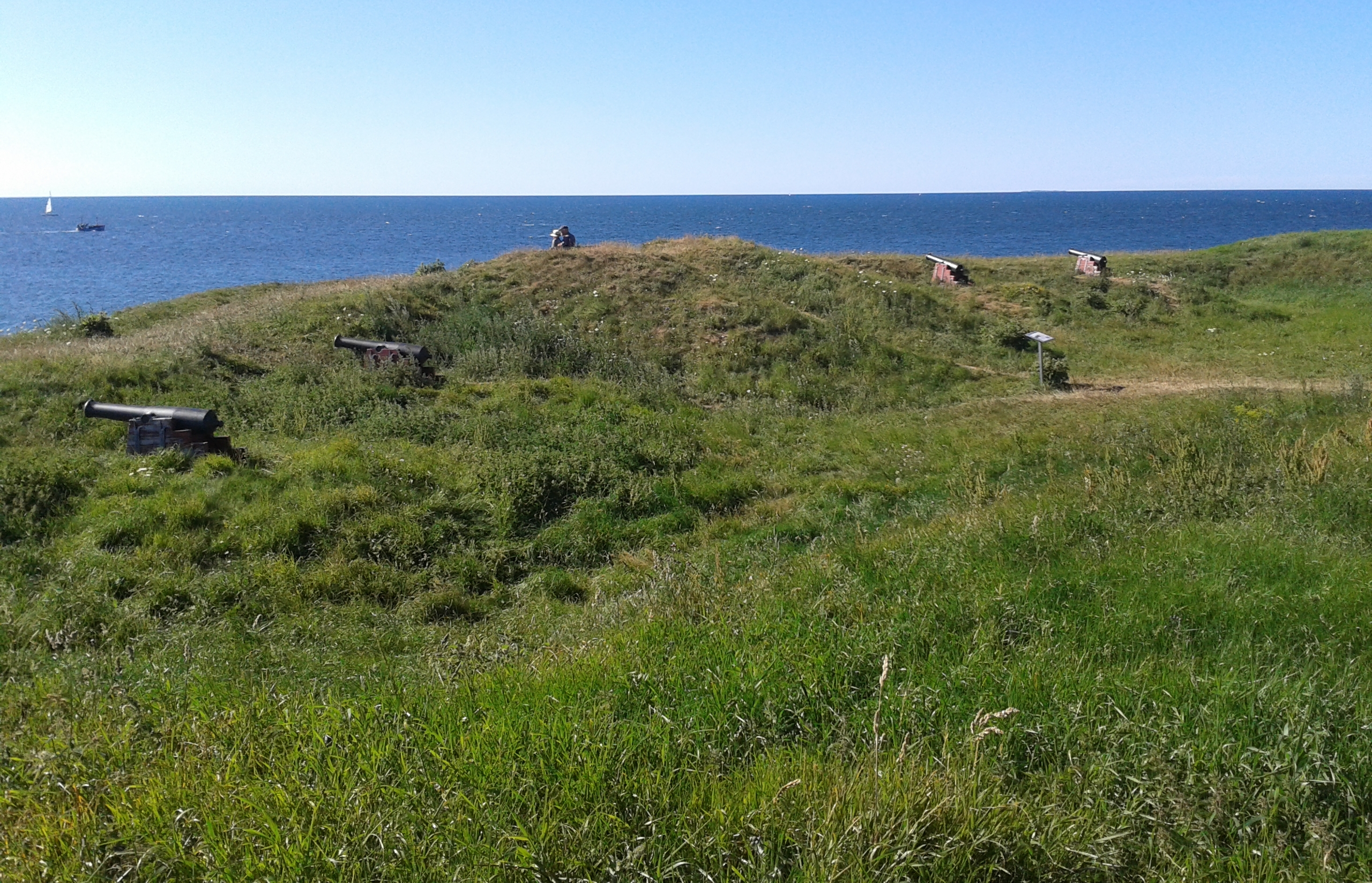 Sconce in the town of Hundested in Denmark.Heading north when taking the picture. The sea behind is Kattegat.